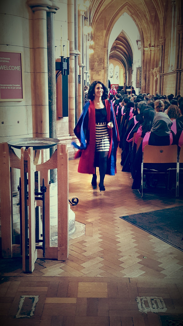 King's College London Graduation Ceremonies at Southwark Cathedral for GKT Faculty of Medicine